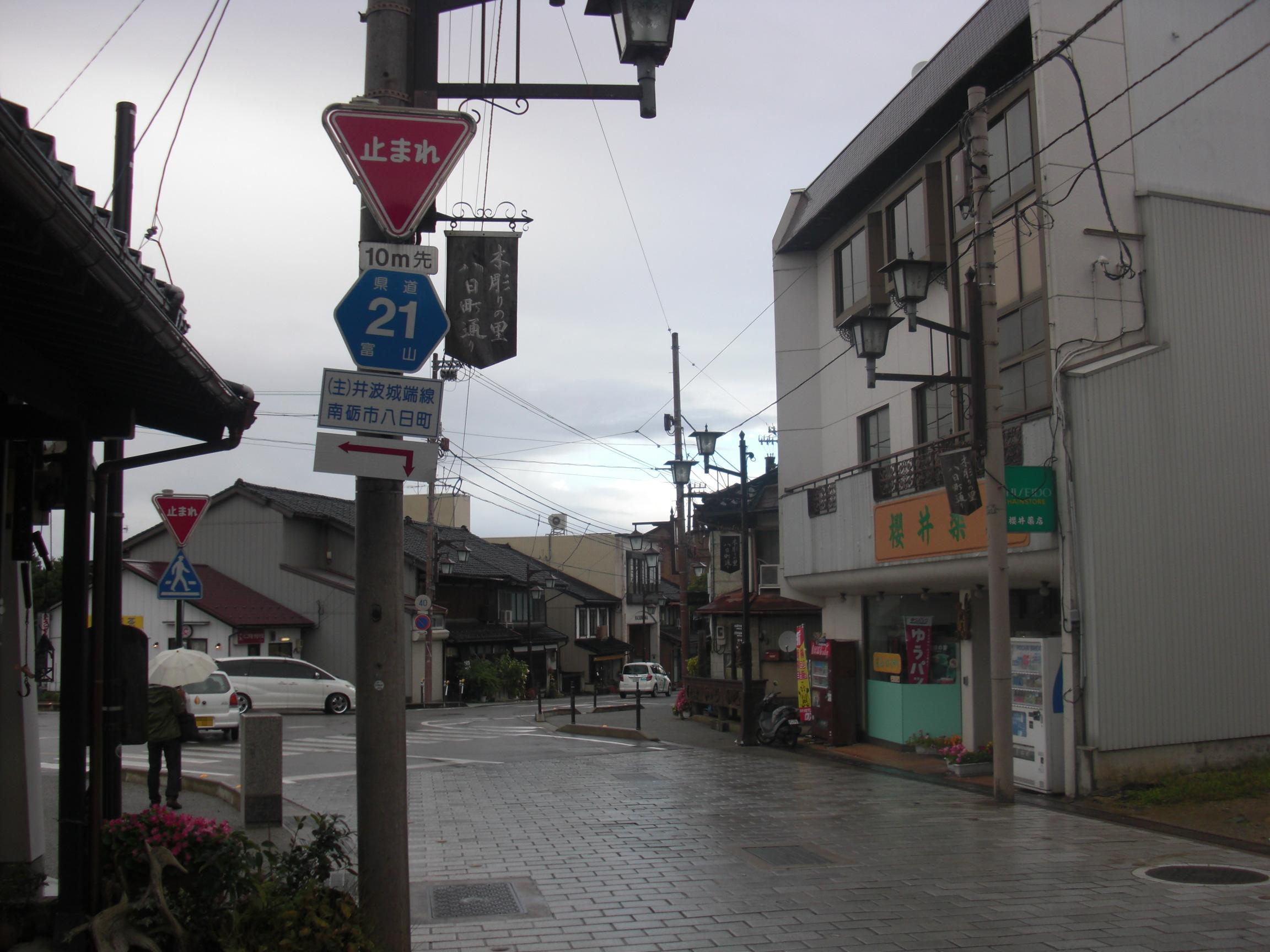 This is a landscape of Toyama prefectural road No. 21 Inami-johana Line at Yokamachi, Nanto, Toyama, Japan.